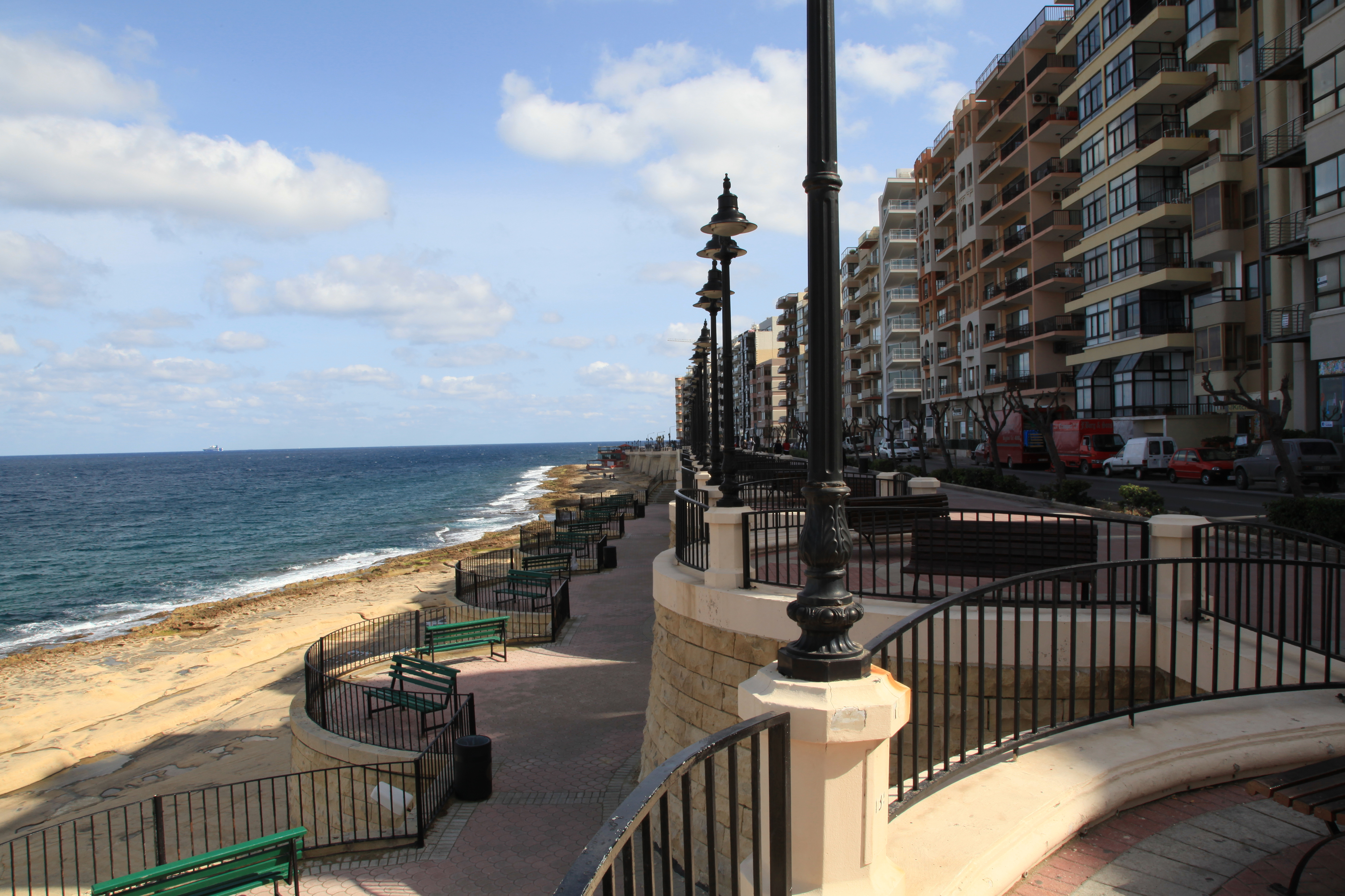 Triq it-Torri in Sliema, Malta